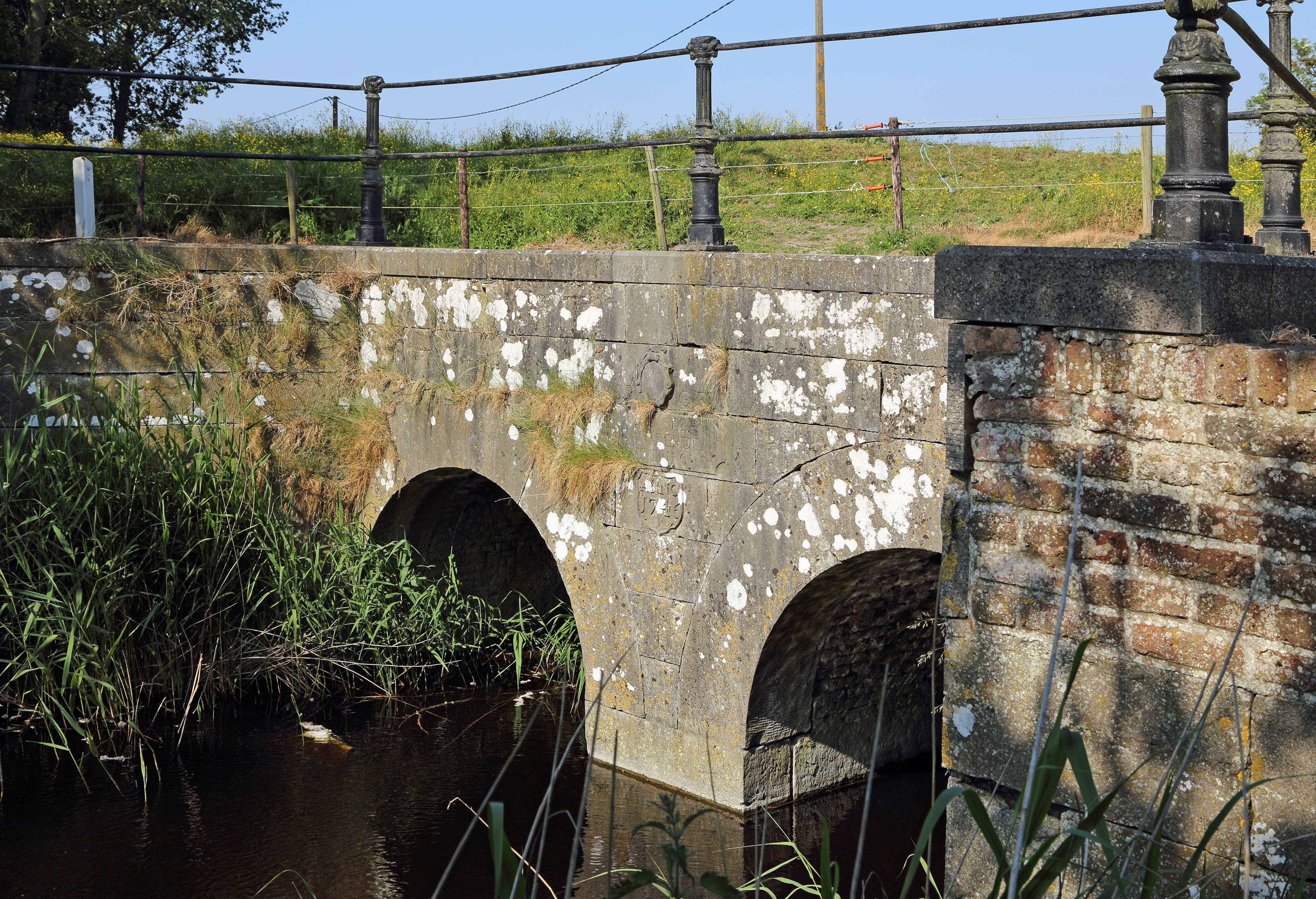 Lapscheure (municipality of Damme, Belgium): the former sluice called Blue Sluice